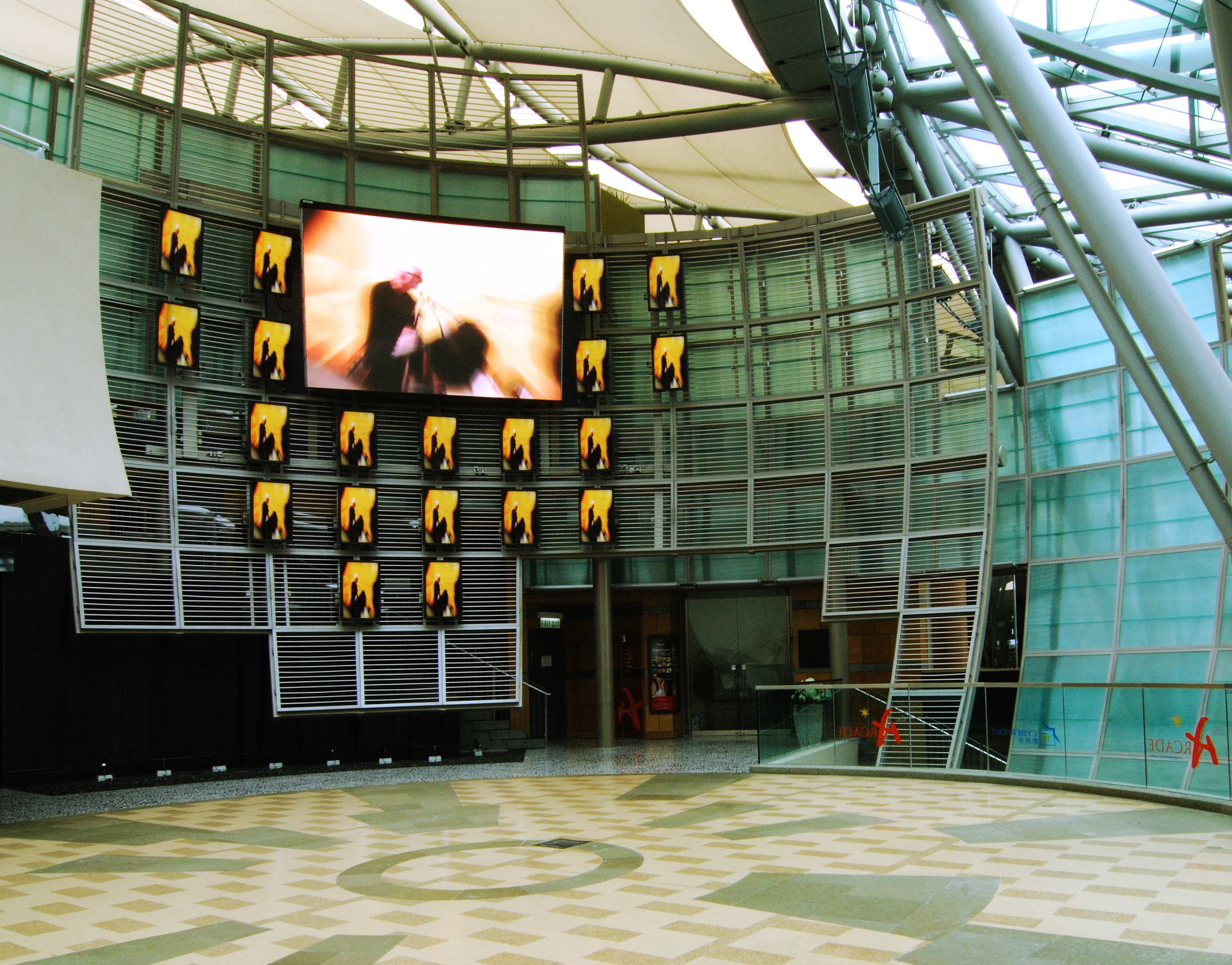 Media Orb at The Arcade, Cyberport